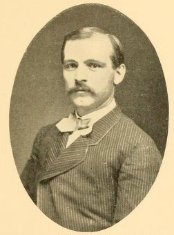 F. Asbury Awl in civilian clothing, former Captain of Company A, 127th Pennsylvania, and Colonel of the 201st Pennsylvania